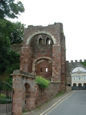 This photograph shows the ruined gatehouse at Rougement Castle, Exeter, UK.